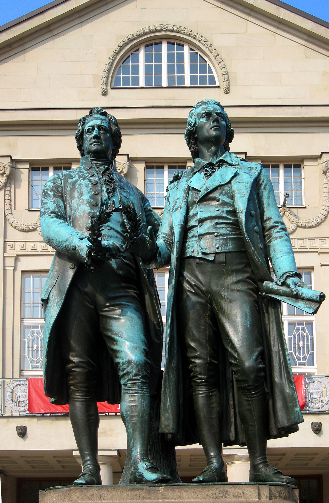 The Goethe and Schiller statue in Weimar